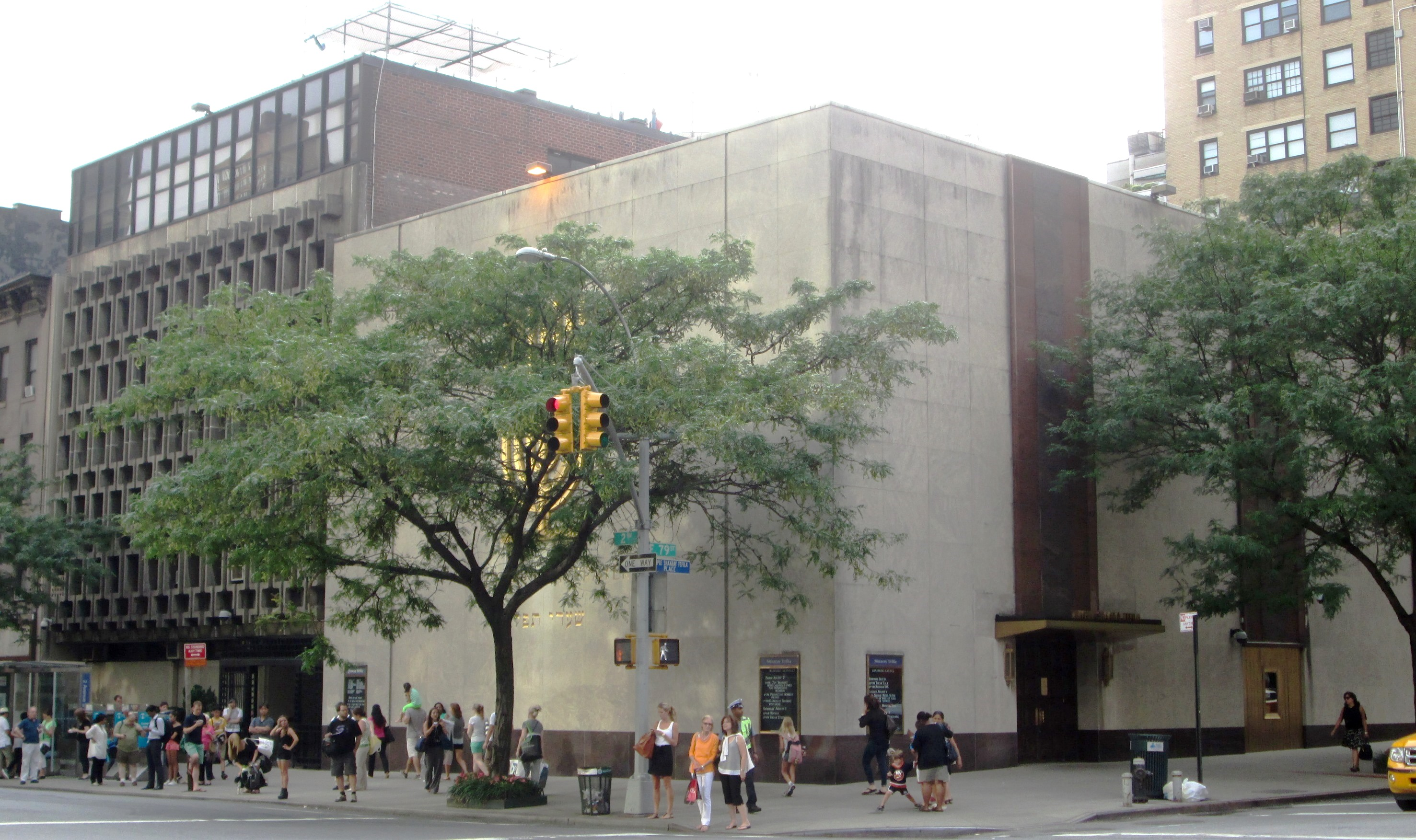 Congregation Shaaray Tefila was founded in 1845 when it separated from Congregation B'nai Jeshurun, and worshipped first at a Romanesque sanctuary built in 1847 at 112 Wooster Street, designed by Leopold Eidlitz and Otto Blesch, then, briefly, at an armory, before moving in 1865 to 127 West 44th Street, to a Henry Fernbach-designed Moorish-Romanesque synagogue. Then, in 1893-94, the congregation had Arnold W. Brunner design a new synagogue for 160 West 82nd Street, in the Byzantine-Moorish style - this was the West End Synagogue, still in use as the Ukrainian Autocephalic Orthodox Church of St. Volodymyr. The congregation's current home at 250 West 79th Street on the corner of Second Avenue in the Upper East Side neighborhood of Manhattan was built in 1946 as the Colony movie theatre, and was converted to a synagogue by John J. McNamara and Horace Ginsbern & Associates in 1959. (Sources: From Abyssinian to Zion (2004) and NYC GIS map)